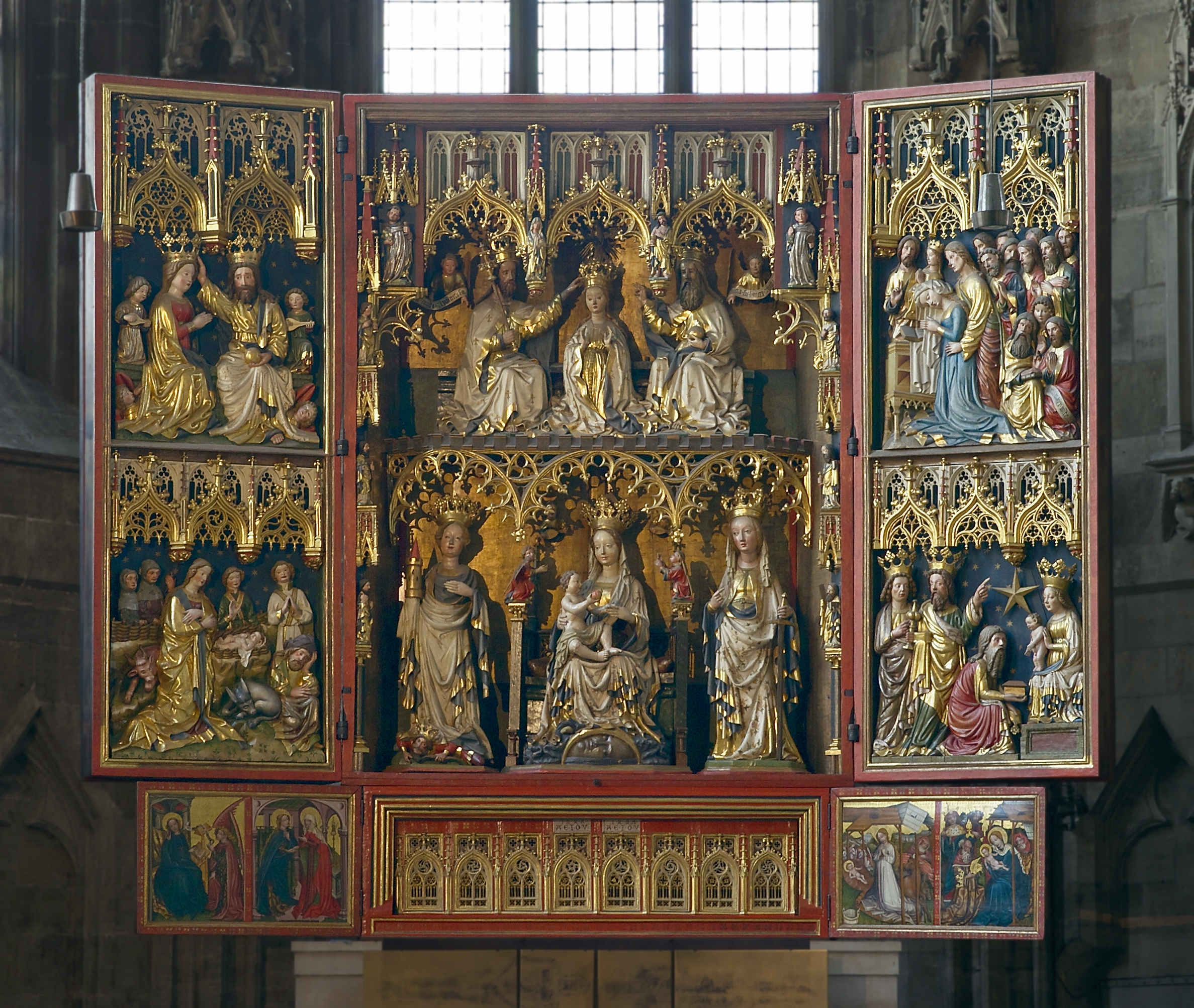 The "Wiener Neustädter Altar", 1447, in the lateral left chapel of the St. Stephen's cathedral in Vienna, Austria.